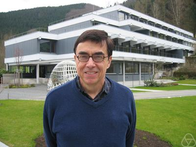 Steve Simpson's photo